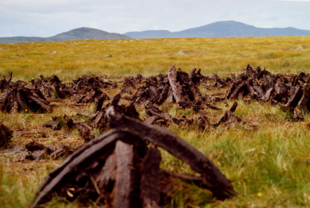 Cutting the peat on the side of Lough Fad. Drying peat in the moors up in the mountains between Carndonagh and Redcastle.